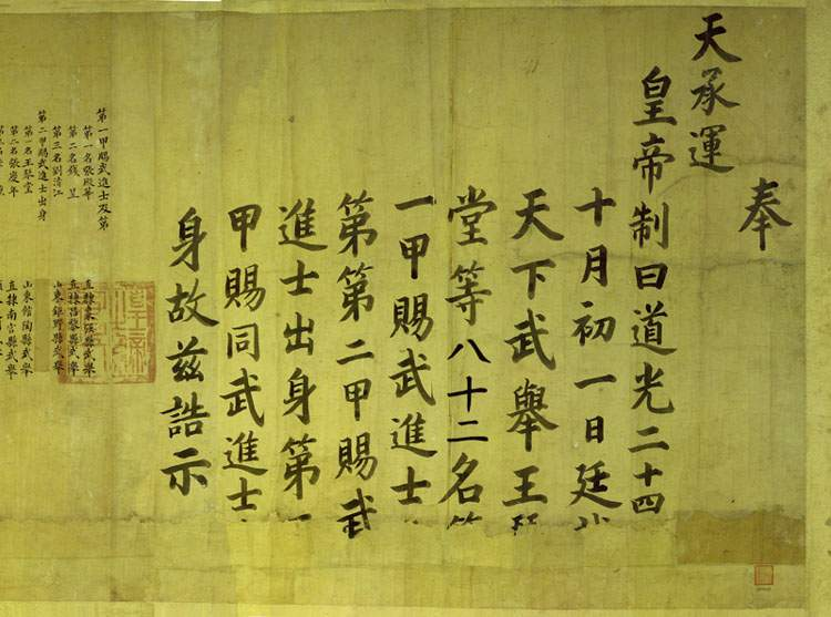 Imperial examination